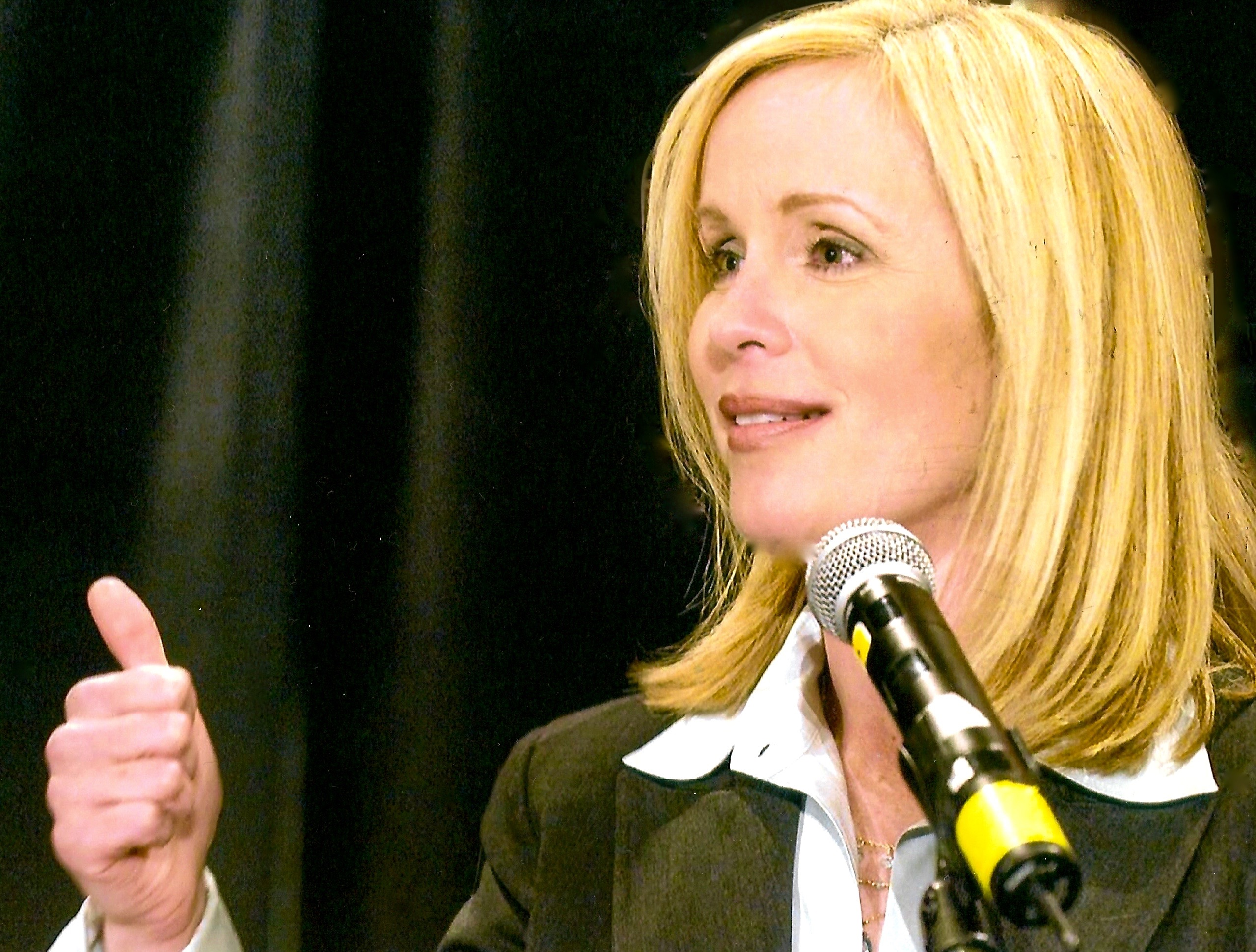 Photo of Eli Leamy speaking at the mic at an event. Elisabeth Ann Leamy (born September 10, 1967) is an American television journalist, author and speaker. Currently, she is the investigative correspondent for The Dr. Oz Show. From 2005 to 2013, she was the consumer correspondent for Good Morning America and other ABC News programs. Leamy continues to write an ABC News Business column. She is host of the YouTube show "Free For All," about free products and services available to consumers.